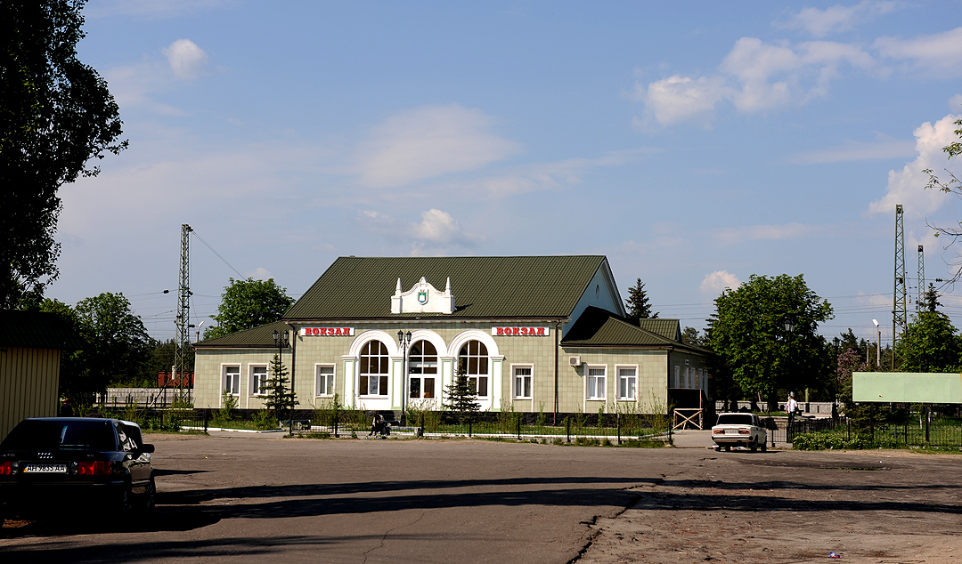 Svyatohirsk Railway Station in Sosnove, Krasnyi Lyman Raion, Donetsk Oblast, Ukraine